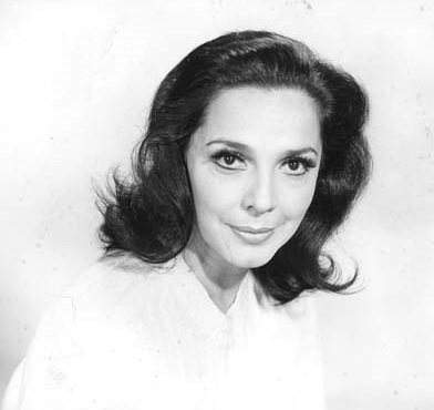 Alba Castellanos-actriz argentina